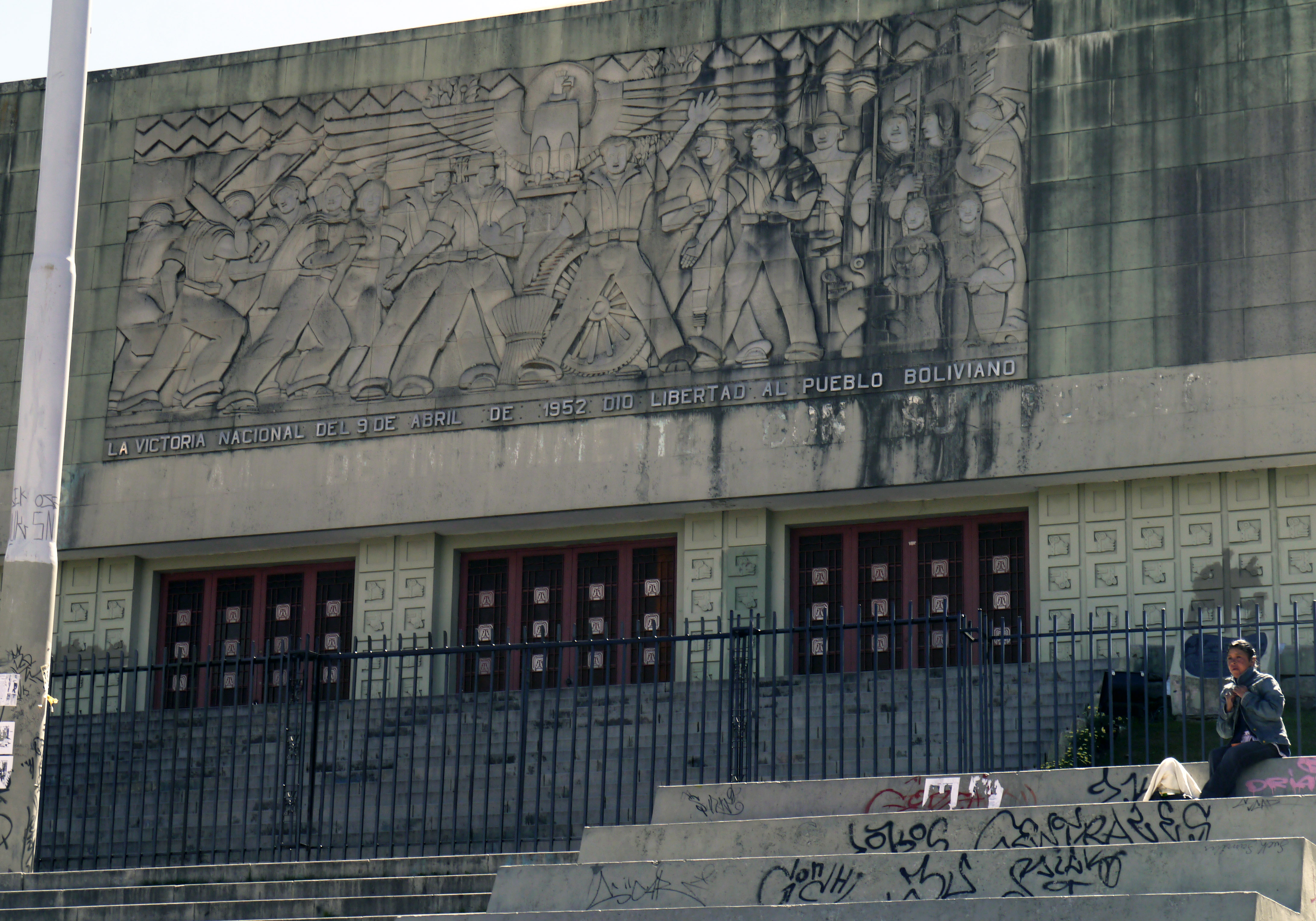 Bas relief sculpture on the Museo de la Revolución in Plaza Villarroel, La Paz, Bolivia. Workers and peasants stand united, carrying numerous symbolic items. Text declares, "The National Victory of April 9, 1952, gave us liberty."